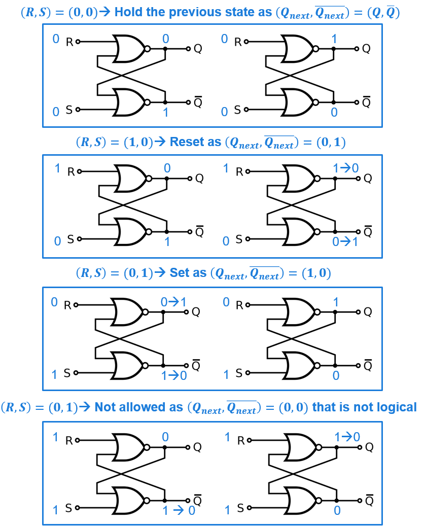 It describes how a SR NOR latch works.